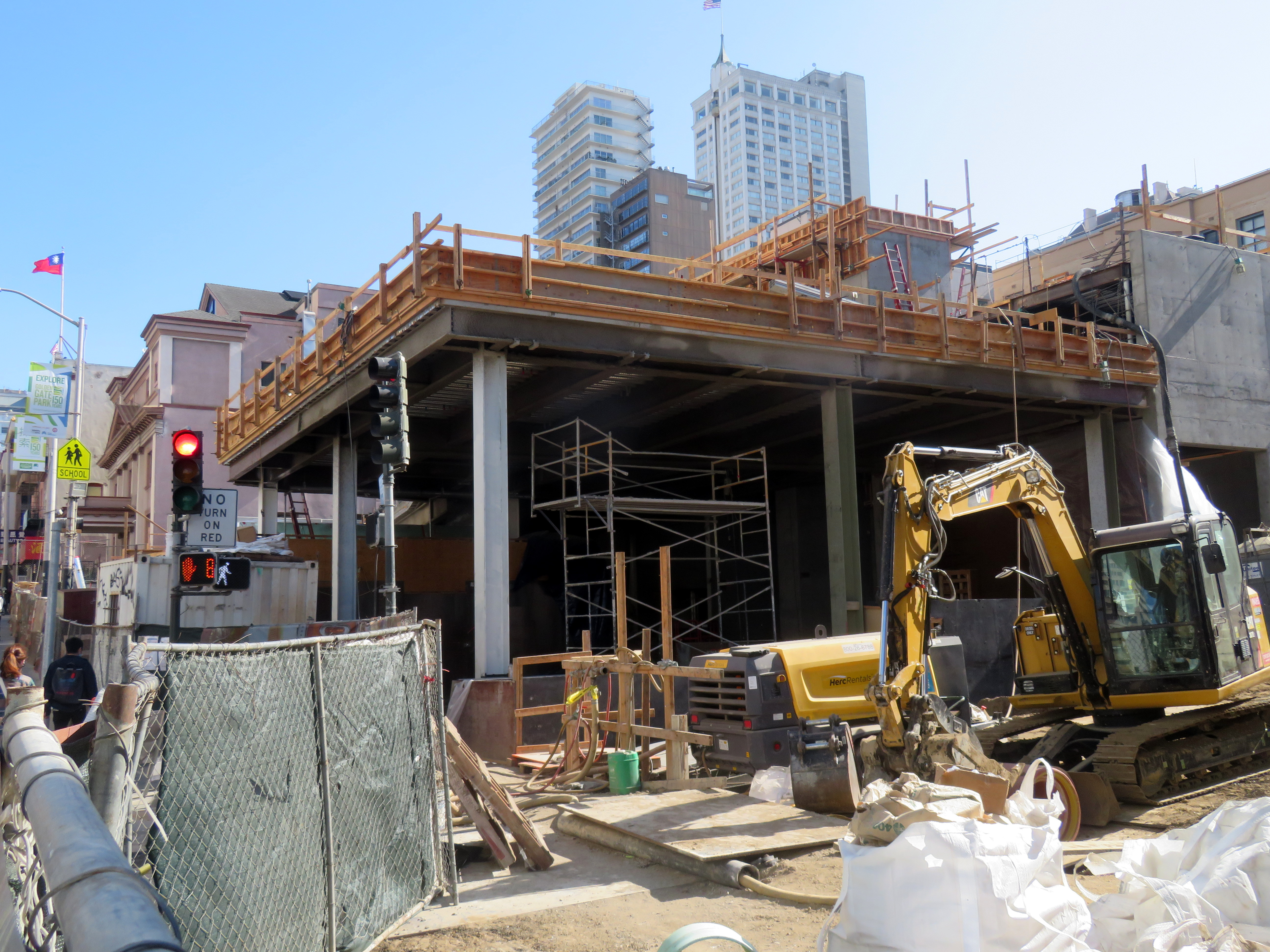 Chinatown station under construction in August 2020